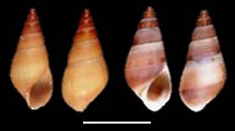 photo of apertural and abapertural views of shells of Hemisinus cubanianus.